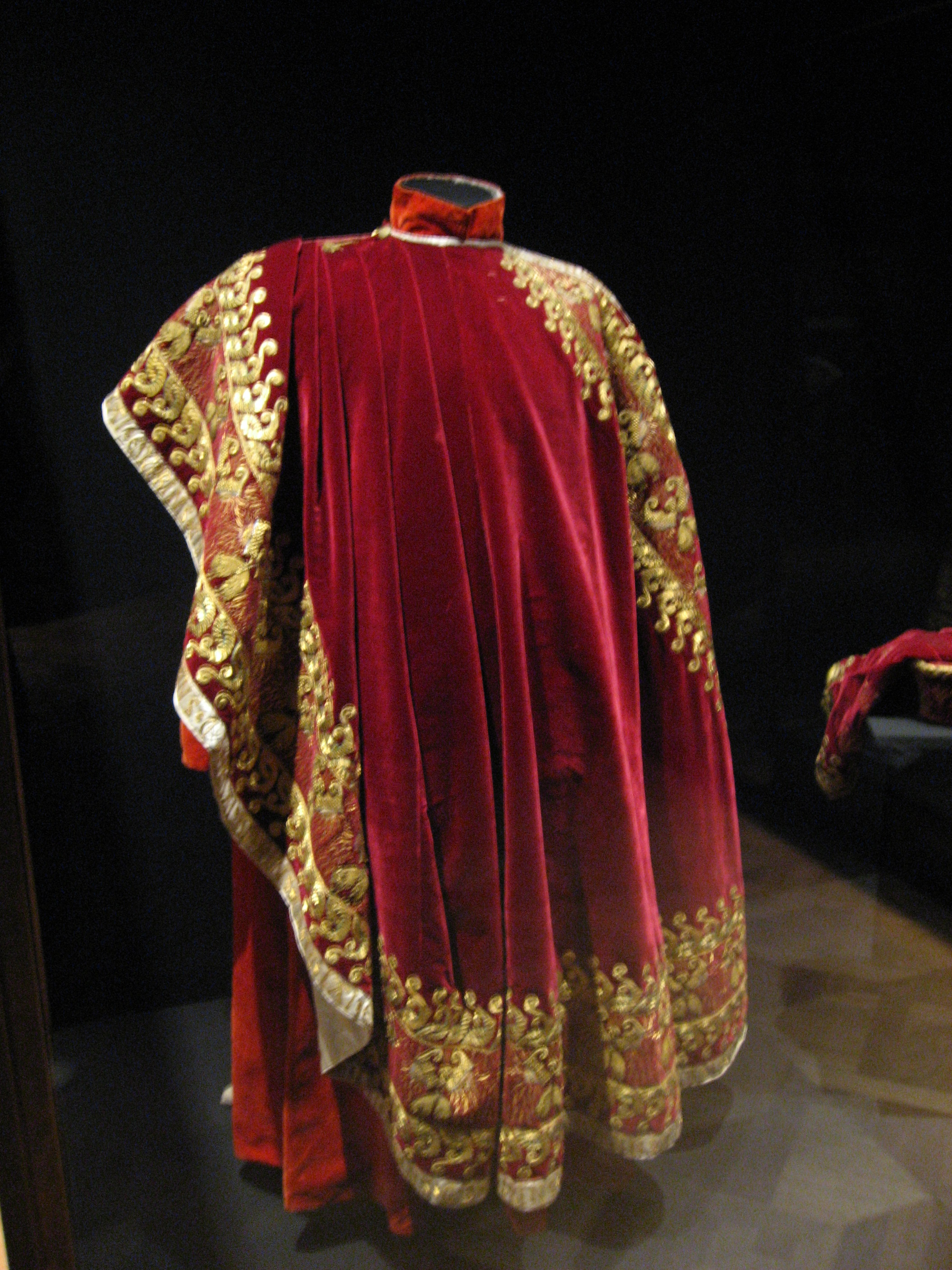 Ceremonial robe of the Grand Master of the Order of the Golden Fleece.